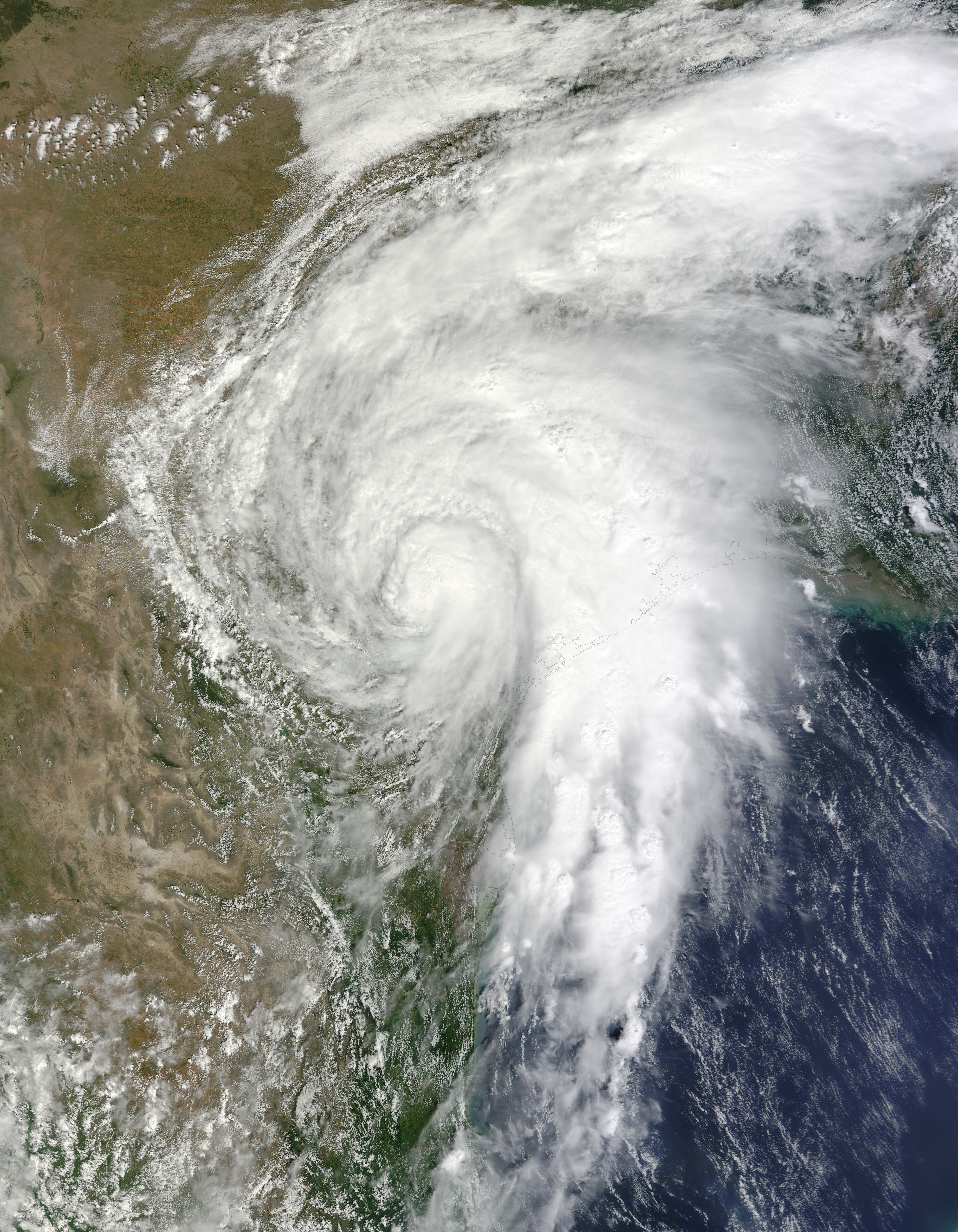 Tropical Storm Hermine inland Texas.